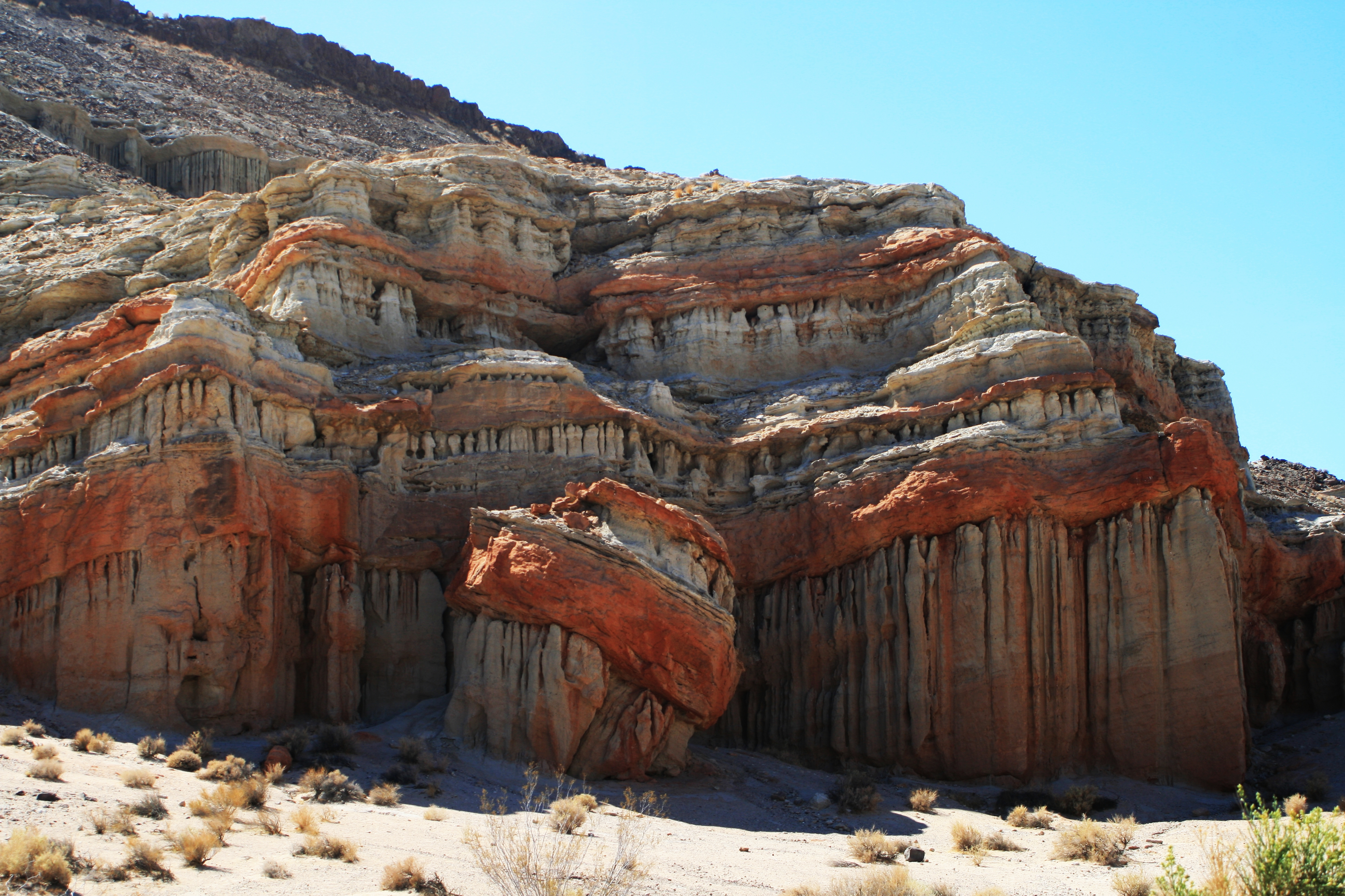 Red Rock Canyon State Park — Mojave Desert.